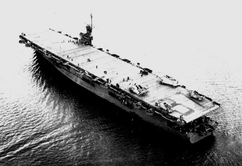 The U.S. Navy escort carrier USS Steamer Bay (CVE-87) with two Grumman TBM Avenger torpedo bombers, and two Grumman FM Wildcat fighters on deck.